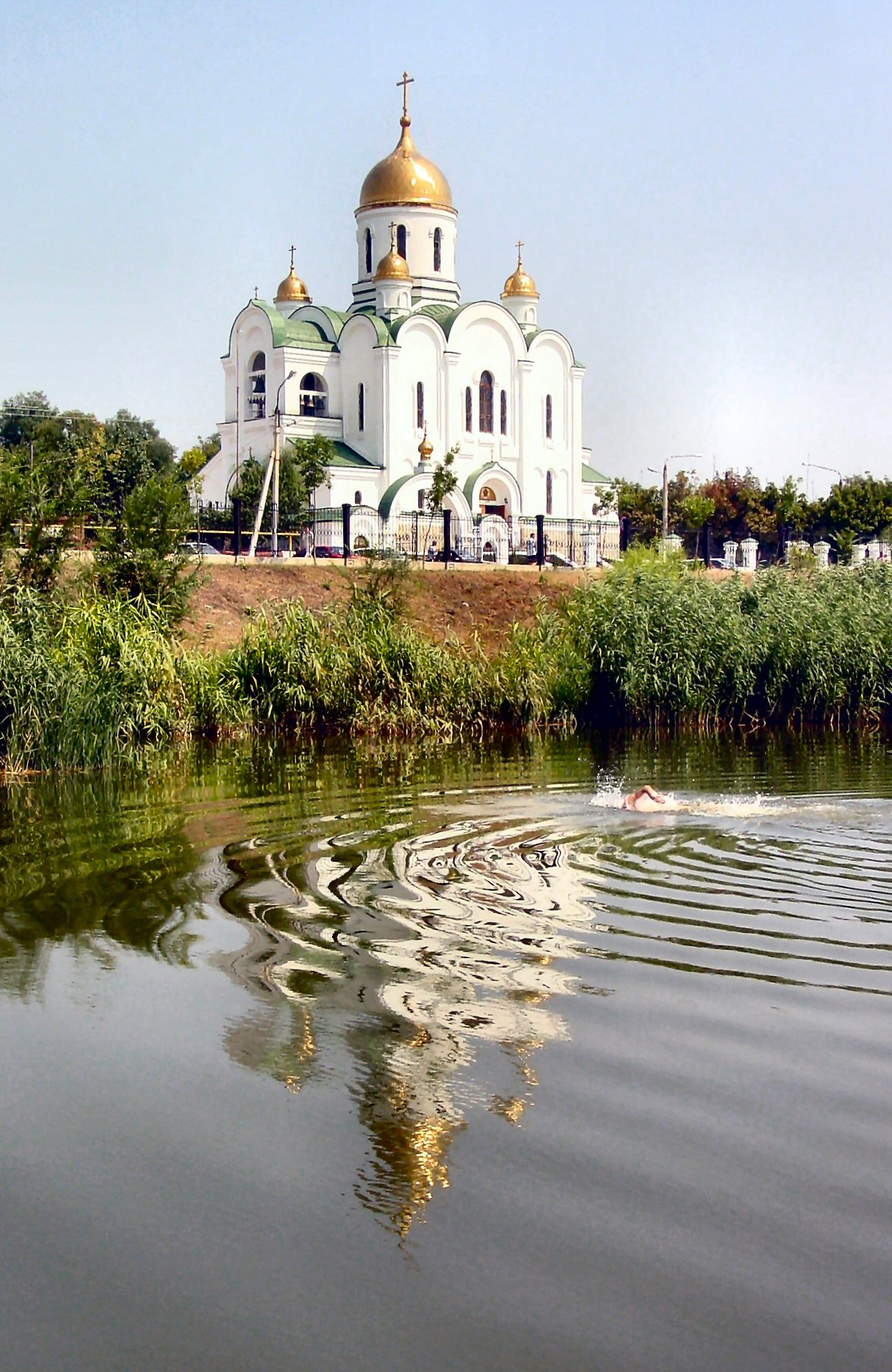 The Orthodox church in Shevchenko Street in central Tiraspol, Moldova/Transnistria